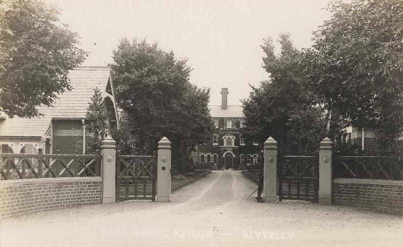 The former East Riding Lunatic Asylum opened in Walkington in 1871 with 100 patients transferred from the North Riding Asylum at York. Standing in its own grounds close to the road from Beverley to Walkington, it boasted magnificent views of the surrounding countryside, which could be seen from the hospital windows. In 1949 it was renamed Broadgate Mental Hospital. During its lifetime, it underwent many changes and at one time it was known as one of the most progressive hospitals of its kind. ‘Broadgates’ closed in 1989 and was later demolished to make way for a new housing development (Why not try searching our East Riding of Yorkshire Map for more historic images? ) (Copyright) We're happy for you to share this digital image within the spirit of Creative Commons. Please cite ' ' when reusing. Certain restrictions on high quality reproductions and commercial use of the original physical version apply. If unsure please